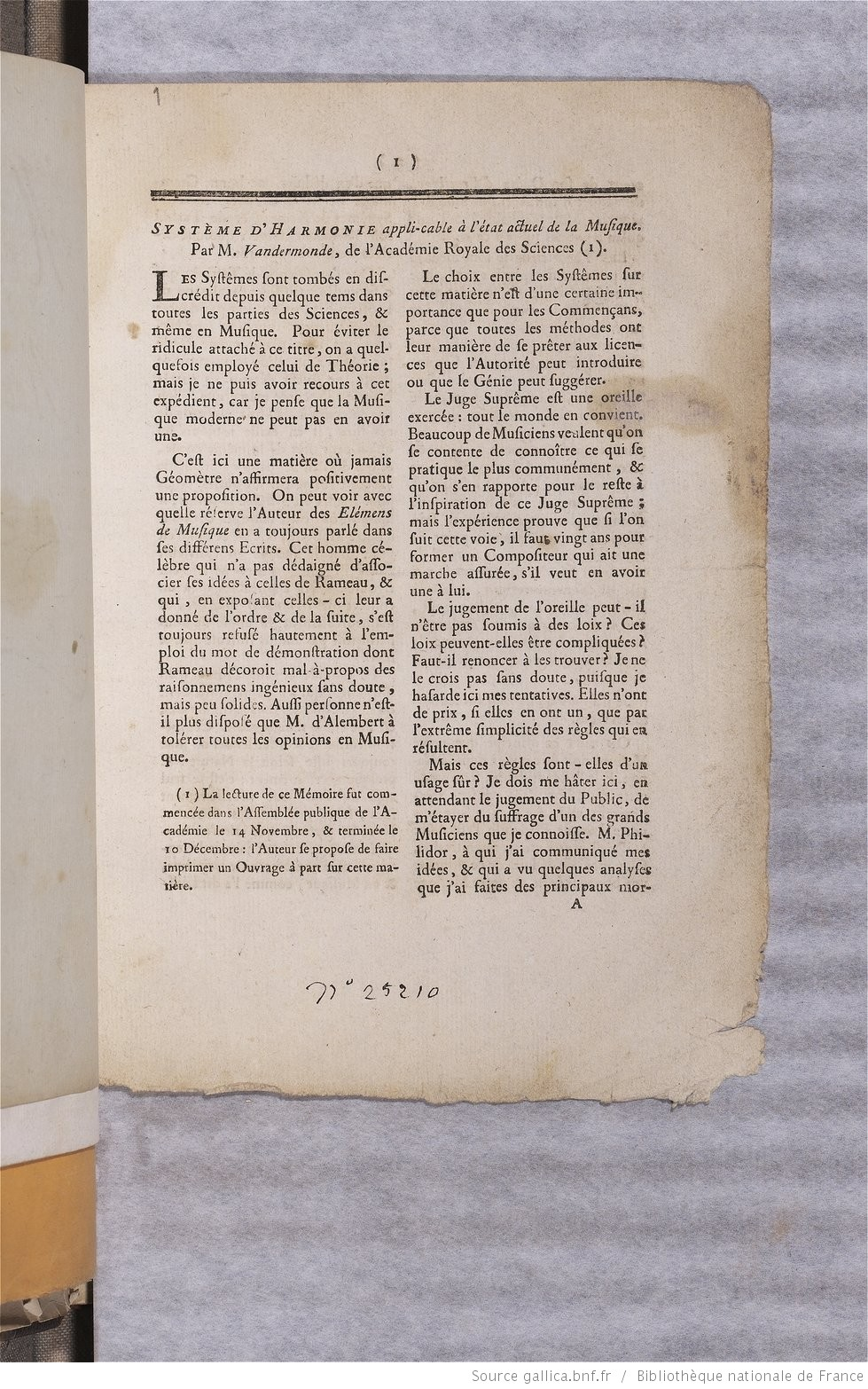 First page of Systeme d'Harmonie (not dated) by Alexandre-Théophile Vandermonde (1735-1796)